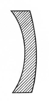 line art drawing of a concavo-convex lens.